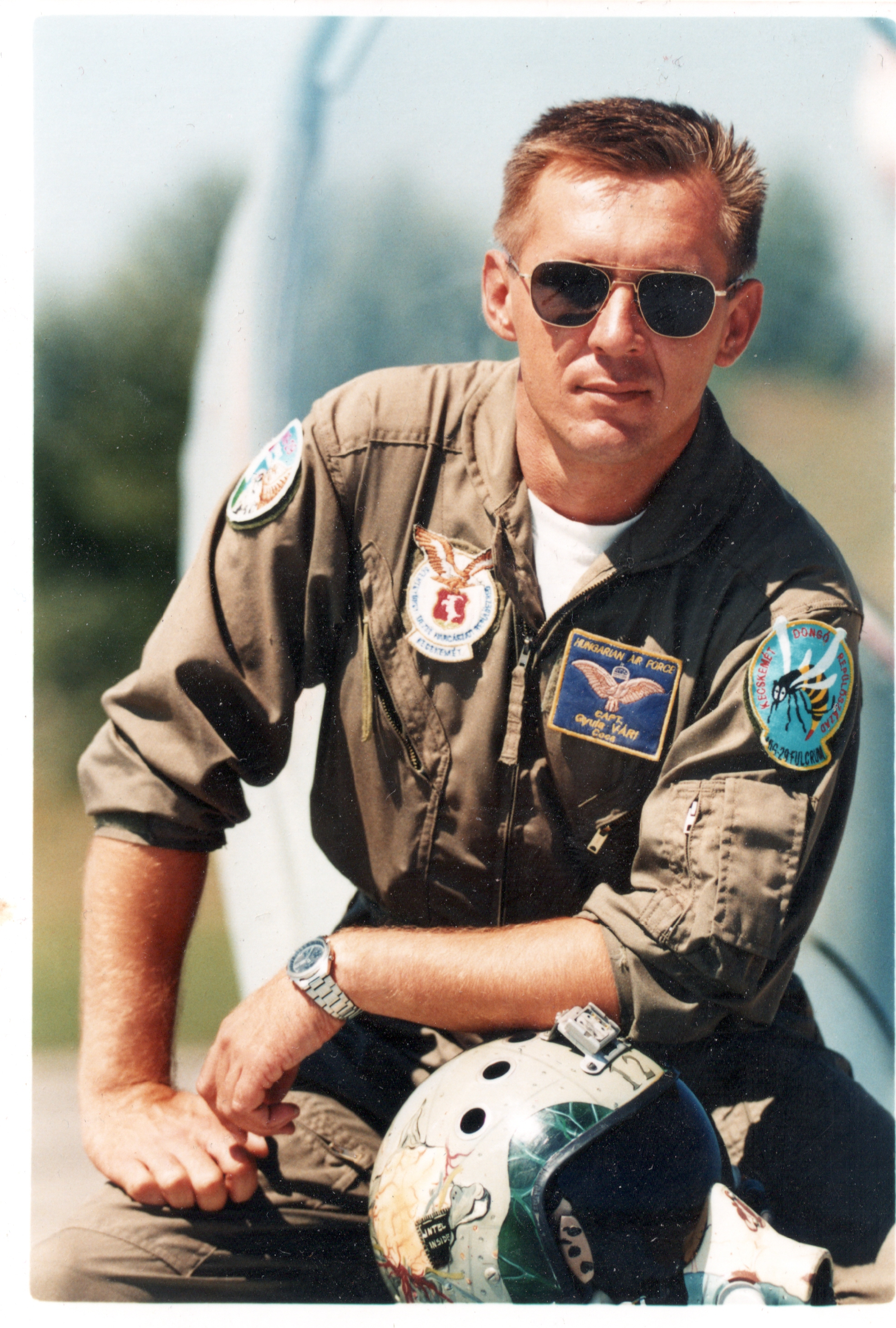 Vári Gyula in the MiG-29